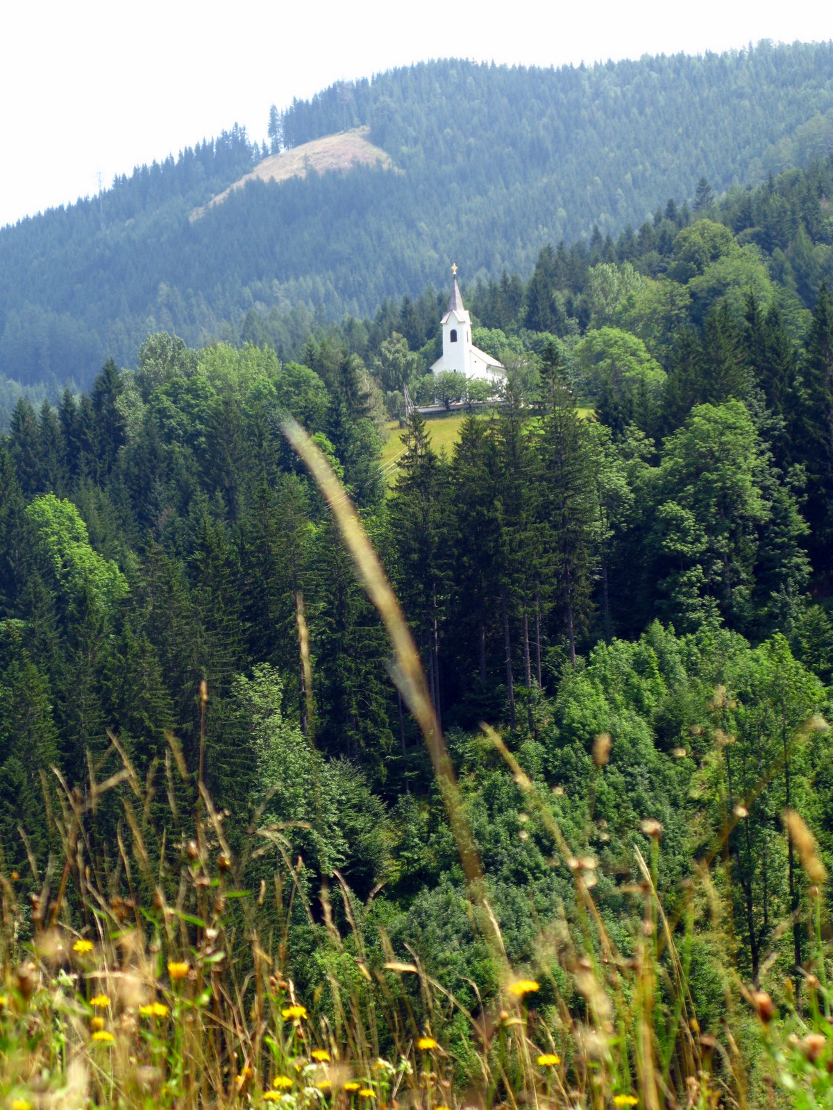 Church of Troegern (Korte) in the Troegern canyon in the community Eisenkappel-Vellach, district Völkermarkt, Carinthia, Austria, European Union.